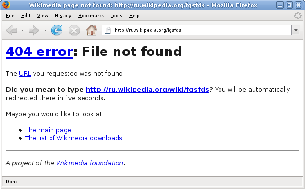 Firefox 3 featuring the 404 error message of Wikipedia.